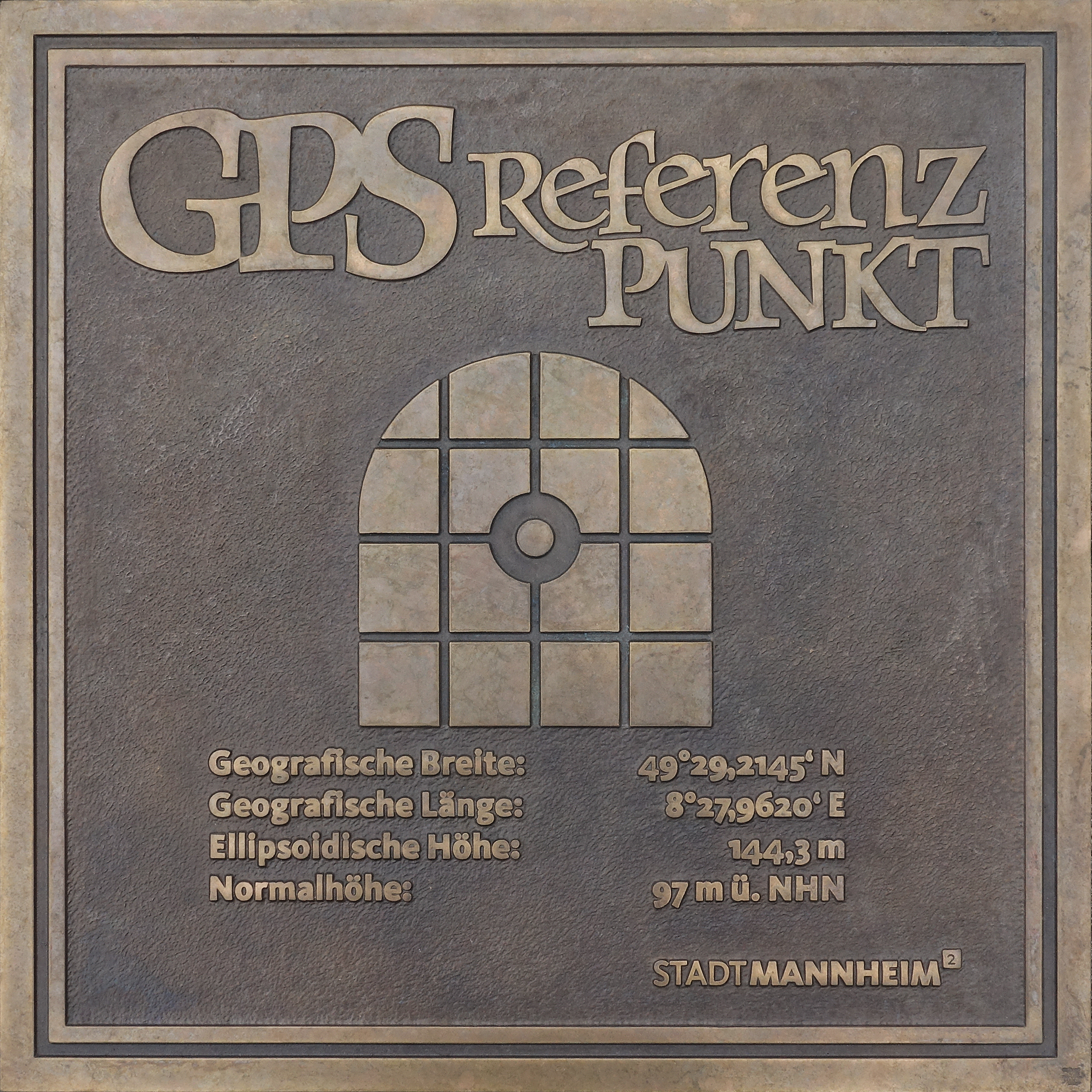 GPS reference point Paradeplatz in Mannheim (Germany)